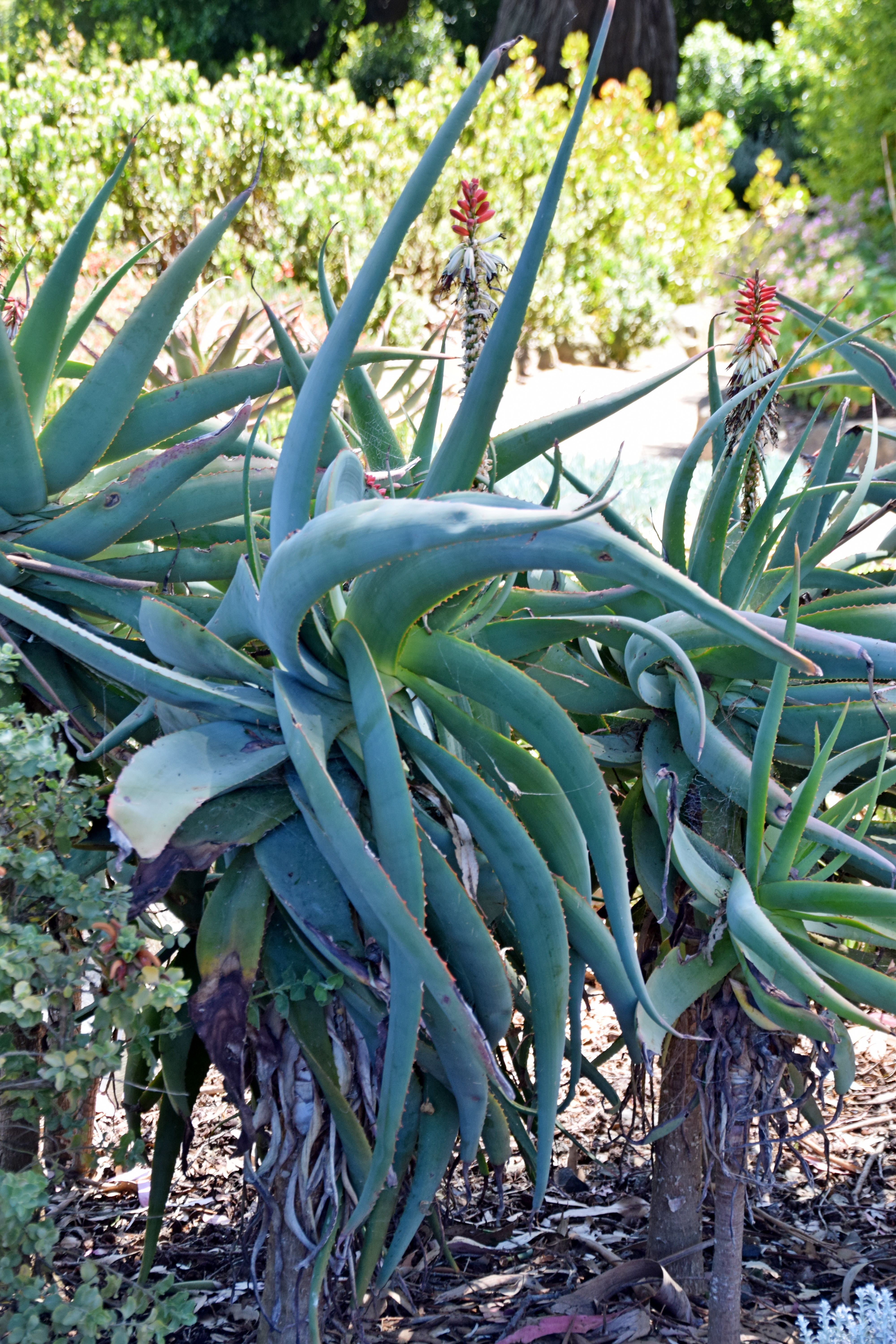 Aloe speciosa in Dunedin Botanic Garden, Dunedin, New Zealand